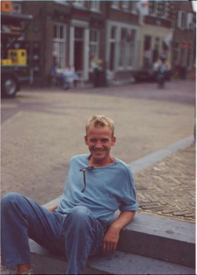 Bert Luttjeboer